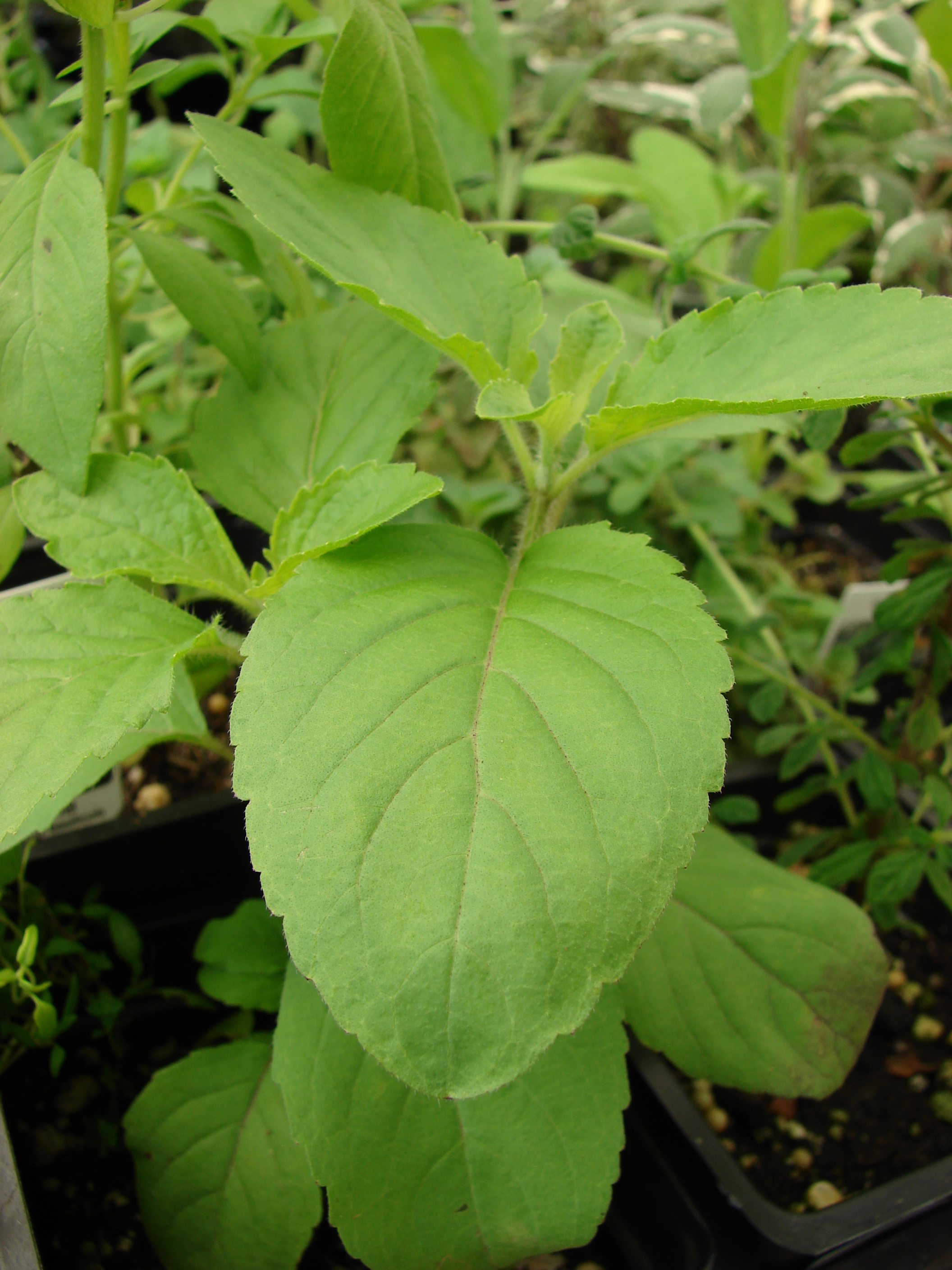 Ocimum tenuiflorum (habit). Location: Maui, Walmart Kahului